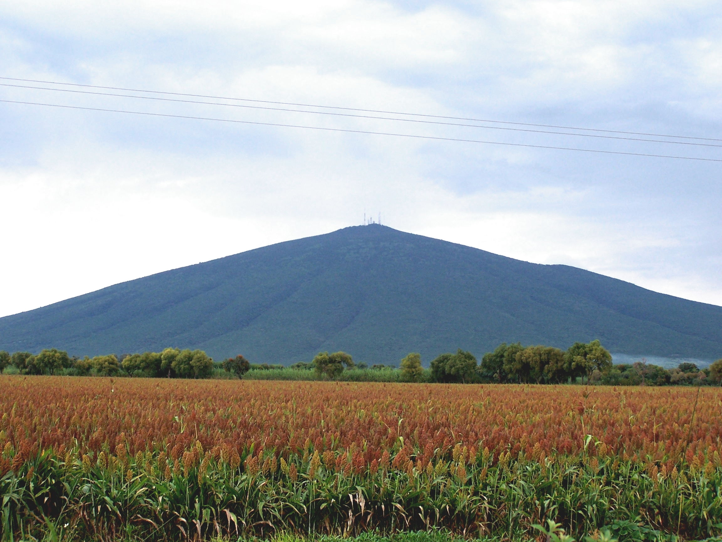 Vista del Cerro Culiacán desde Jaral del Progreso